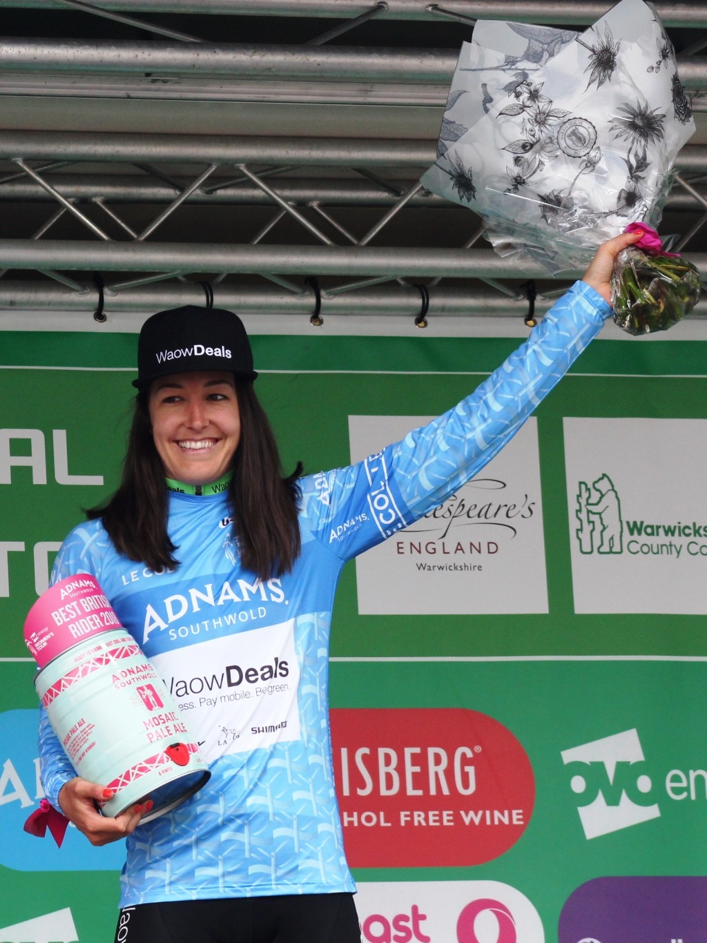 Dani Rowe receives her prize as best British rider in the 2018 Women's Tour after Stage 3 finishes in Leamington Spa. She was still the best at the end of the five-day race.